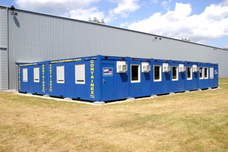 Bürocontainer Standort H-Veszprem, Fotograf: Wolfgang Lang; Lieferant * Containex